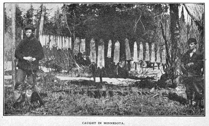 Old photo of trappers from Minnesota